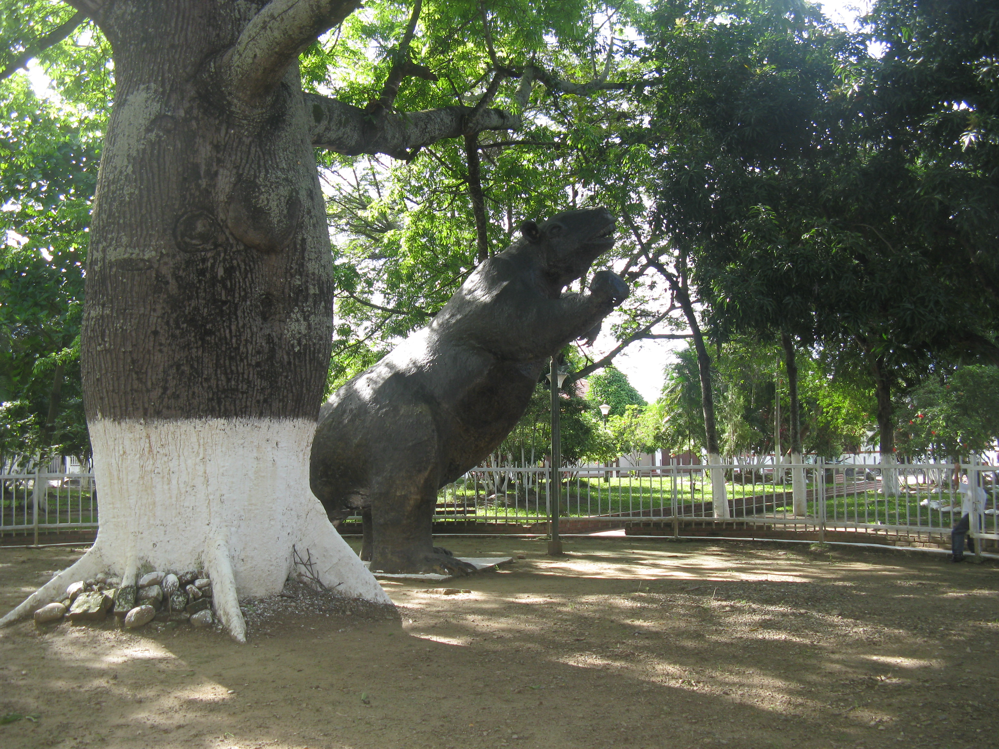 Model of the large mammal that was found near Villa Vieja